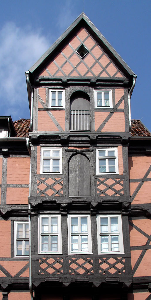 Halftimbered house called "Boerse" (stock exchange) in Quedlinburg (Germany)